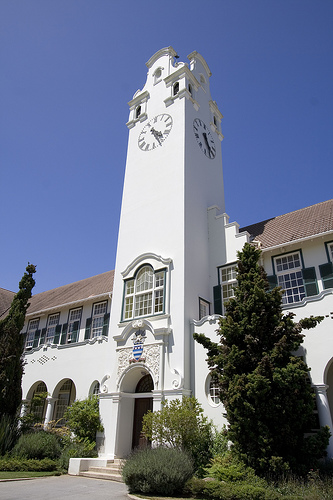 Tower of the Grey High School, Port Elizabeth, South Africa